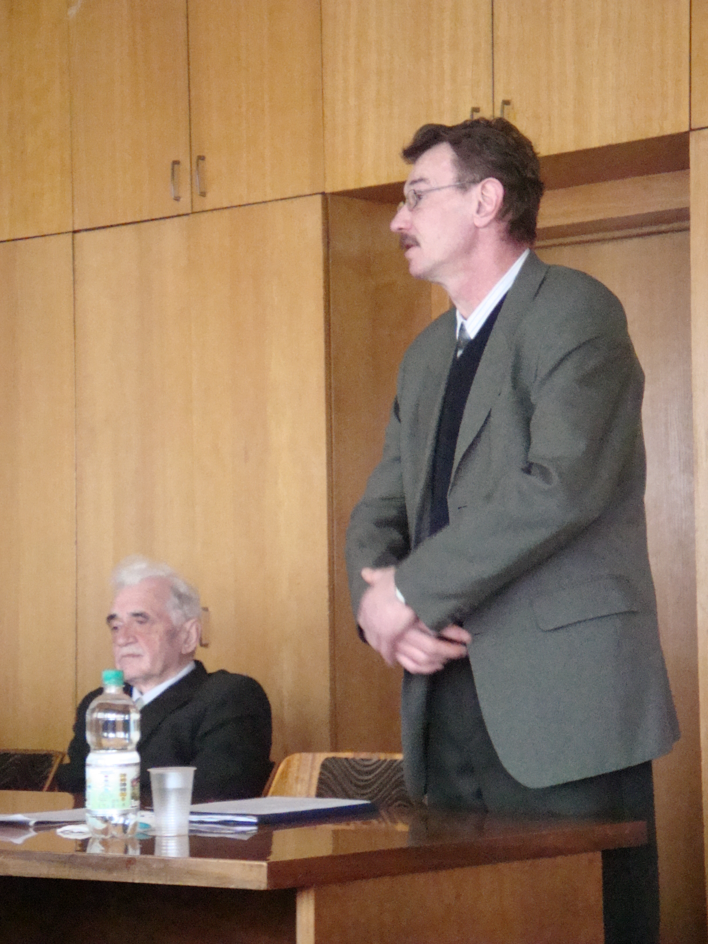 Igar Chakvin (1954-2012), belorussian historian and ethnologist, in National Academy of Sciences of Belarus. Minsk city, 2009 AD